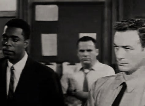 Lincoln Kilpatrick (left) & Robert Loggia (right) in Cop Hater - trailer (cropped)